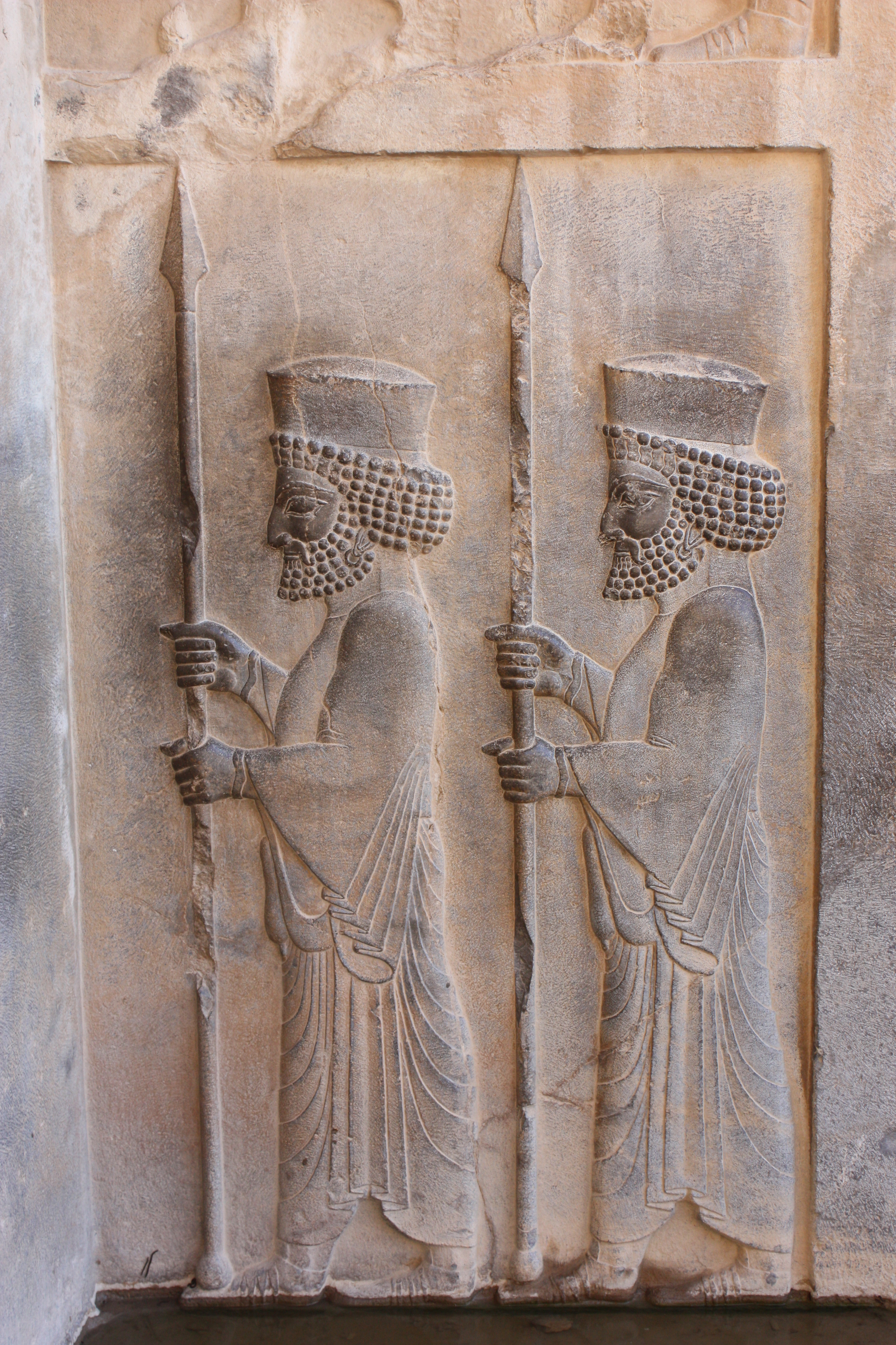 Persepolis in Shiraz